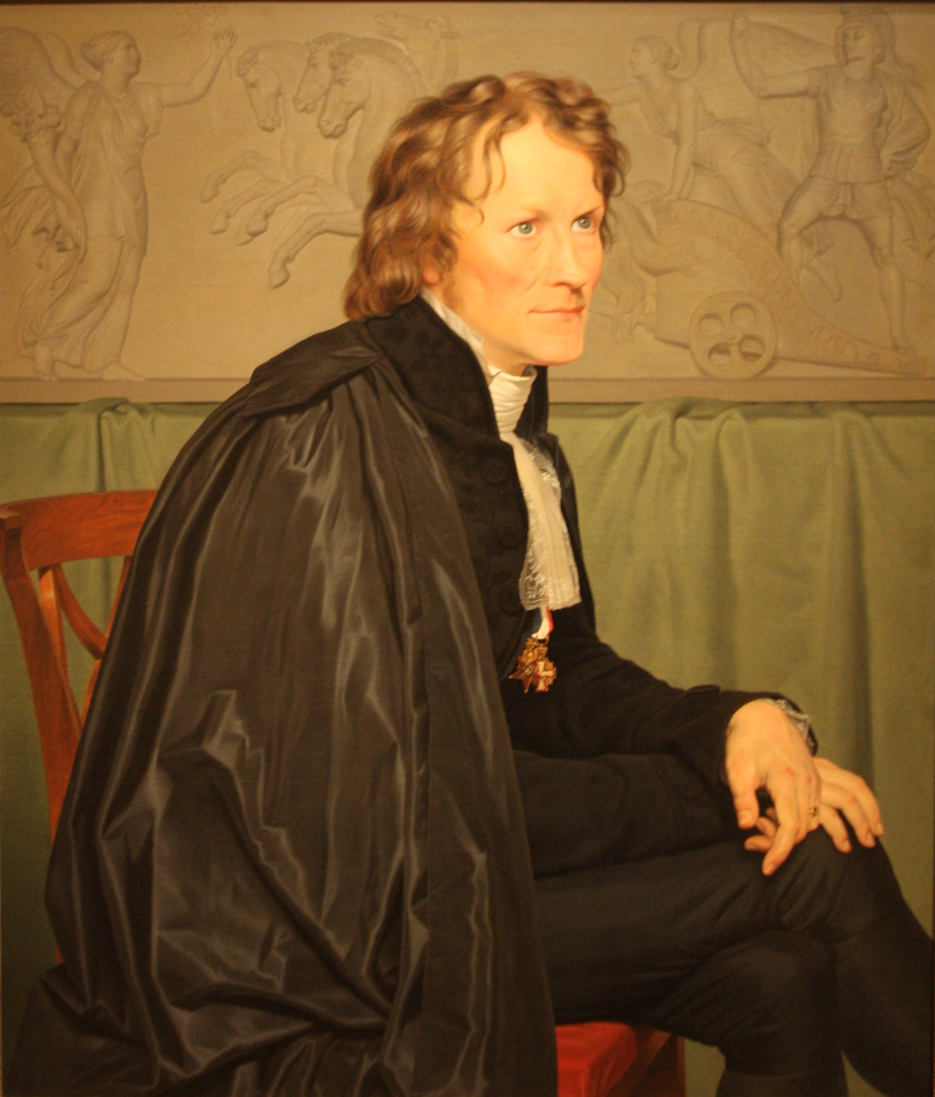 Portrait of Bertel Thorvaldsen. 1814, the Royal Danish Academy of Fine Arts (replica 1838 by Eckersberg in Ny Carlsberg Glyptotek)